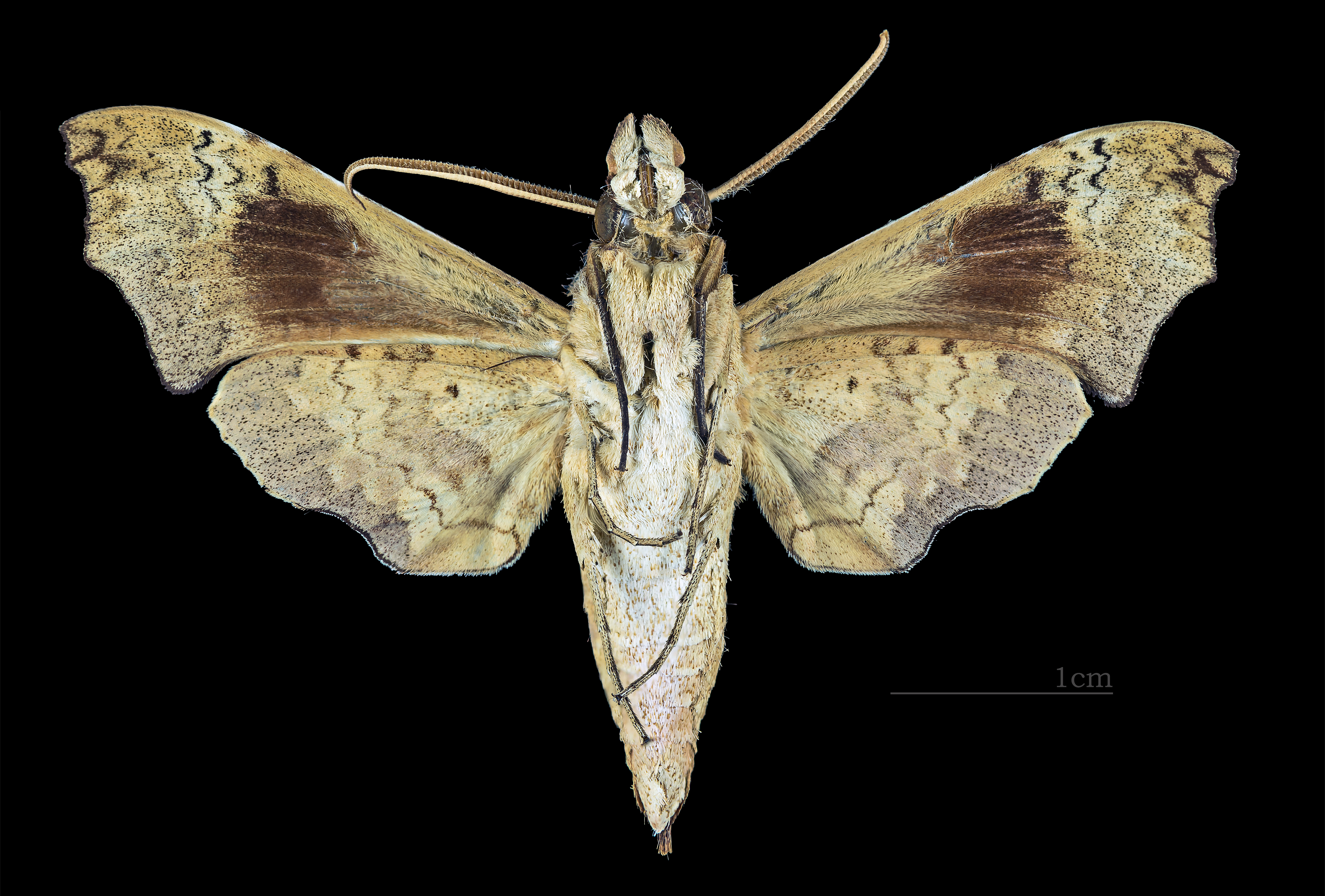 Aleuron iphis - △ Ventral side